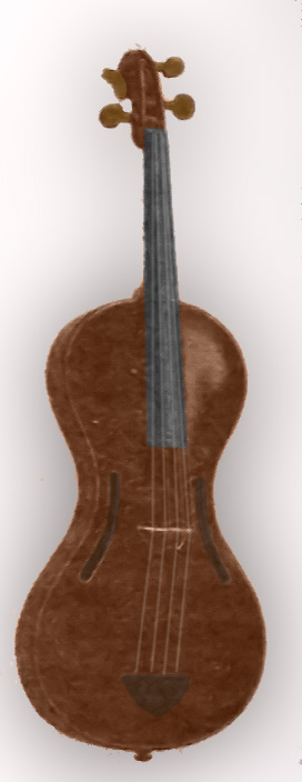 Violin created by Chanot.